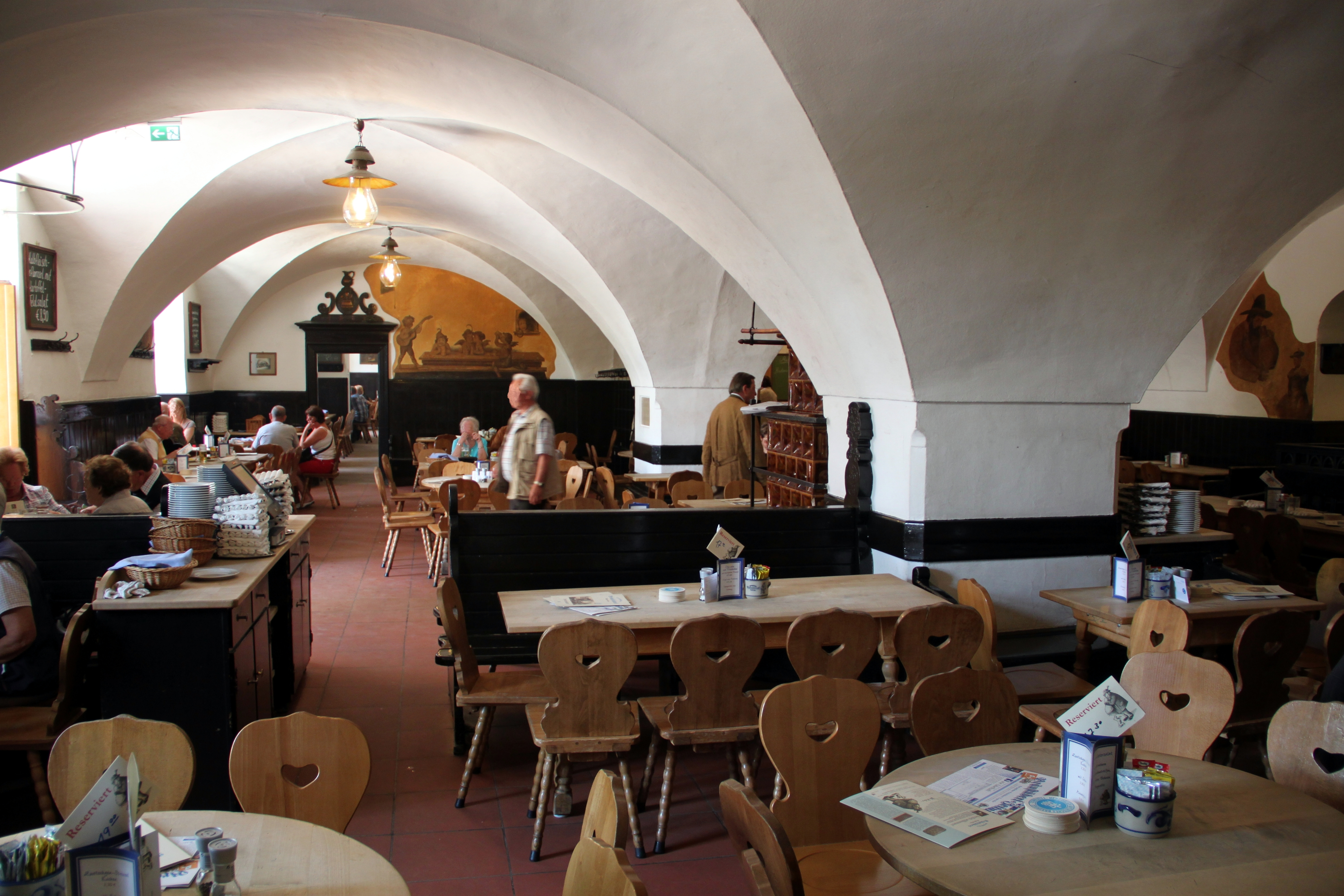 Tegernsee abbey tied house